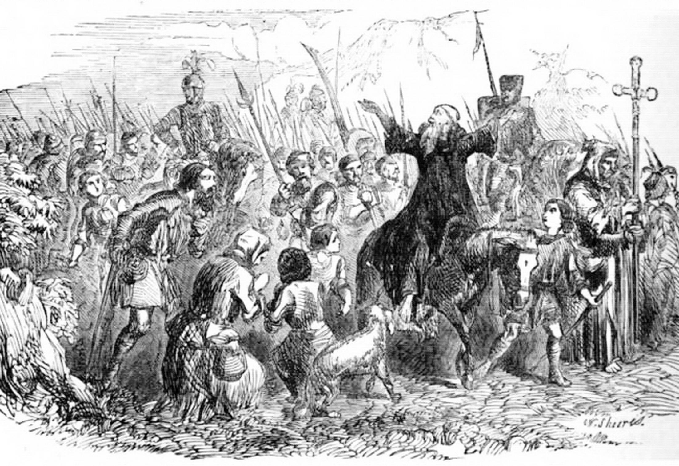 The title is the same as the image caption above & in "Cassell's Illustrated History of England, Volume 1". The number shown is the page number. Follow the image link to the full book.